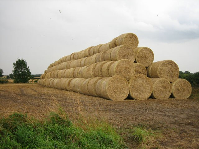 Stacks and stacks of bales. Now that straw burning is taboo and that keeping cattle is becoming focused into the West, it is hard to imagine where all this straw gets used. If kept dry, perhaps it could be used in a biomass boiler or power station - or would that involve too many straw miles?